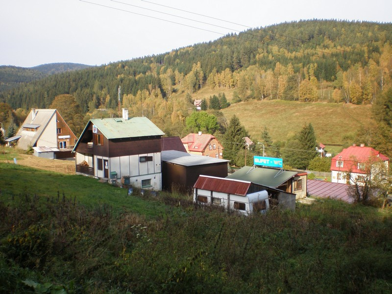 Stříbrná, Czech Republic